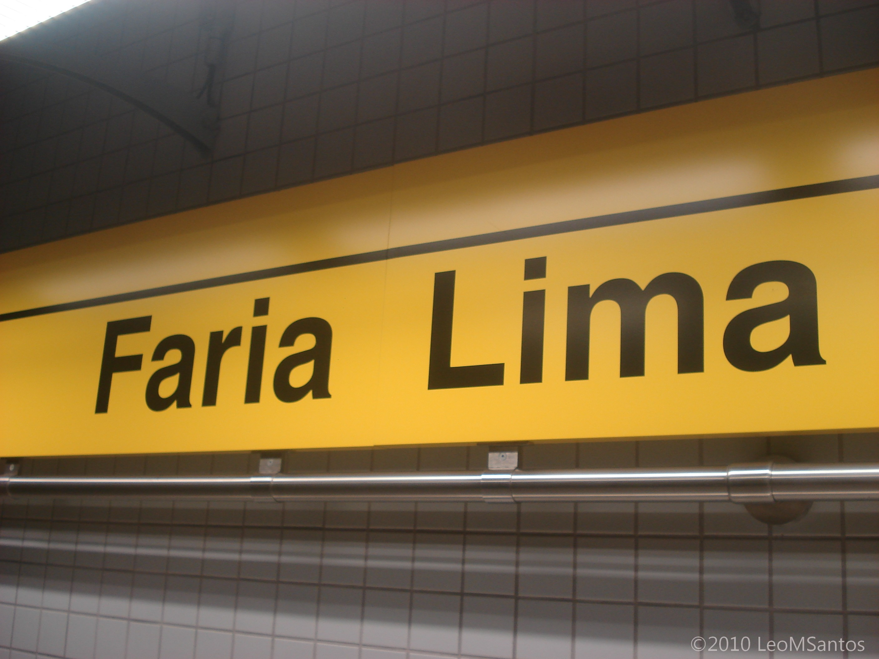 Faria Lima Station of Line 4 - Yellow. São Paulo Metro.